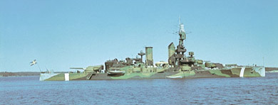 Picture of the Swedish battleship HMS Drottning Victoria.